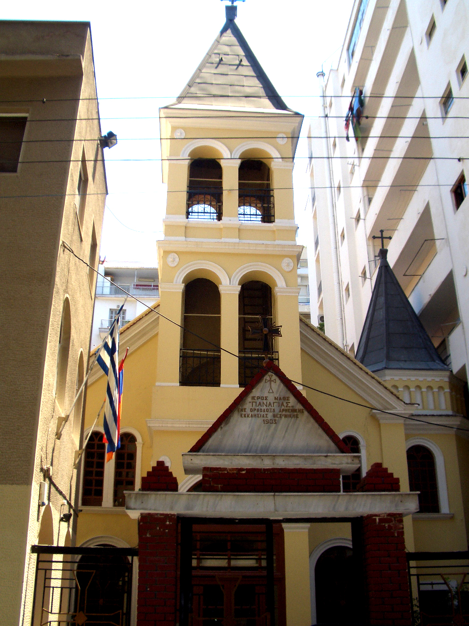 Armenian Church of Virgin Mary in Thessaloniki